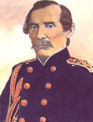 Yevfimy Vasilyevich Putyatin (1803-1883), a Russian Admiral. An Island in Primorsky Krai was named after him. Flickr data on 2011-08-14 Tags: Old picture, Putyatin, Admiral License: CC BY-SA 2.0 User: paukrus Ruslan